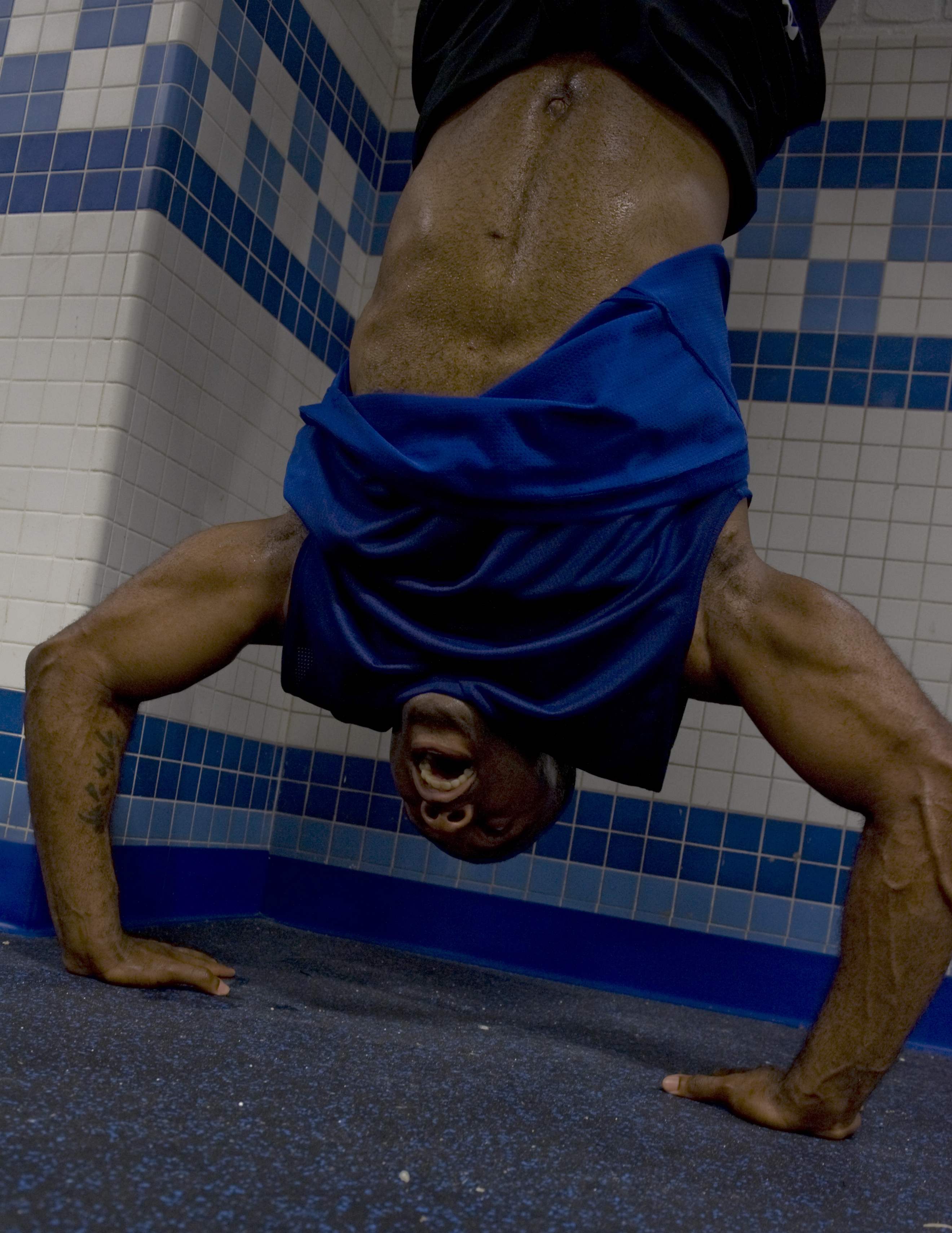 U.S. Air Force Master Sgt. Lafonza Spencer, Air Combat Command manpower management analyst, performs hand-stand pushups inside the Warrior Zone at Langley Air Force Base, Va., Aug. 19, 2012. Spencer visits the Warrior Zone, inside the Air Combat Command Fitness Center, several times throughout the week as part of his workout routine.